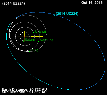 Orbit of asteroid en:2014 UZ224.